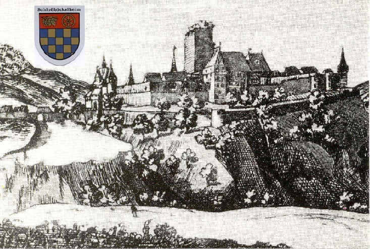 Castle Schloßböckelheim, Schloßböckelheim, Rüdesheim, Bad Kreuznach, Rhineland-Palatinate